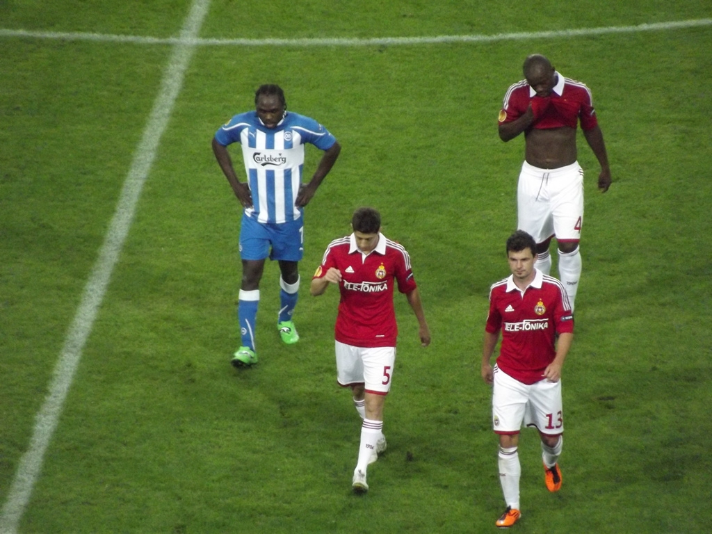 Nigerian football player Peter Utaka.